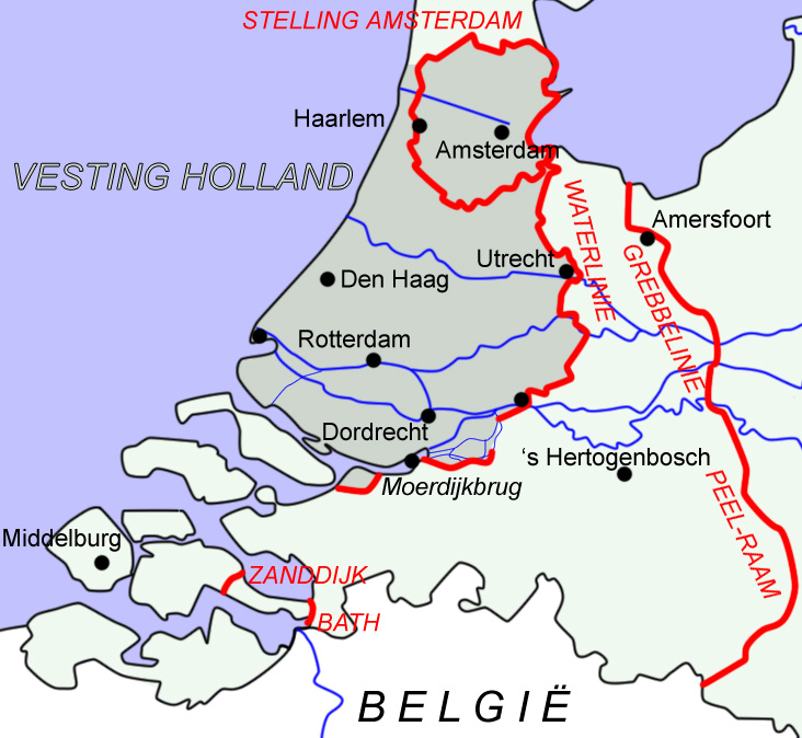 "Vesting Holland" (military defensive line) in the Netherlands. Disclaimer: The exact location of the forts and inundation areas may differ from reality to a slight extent. Made by Niels Bosboom.